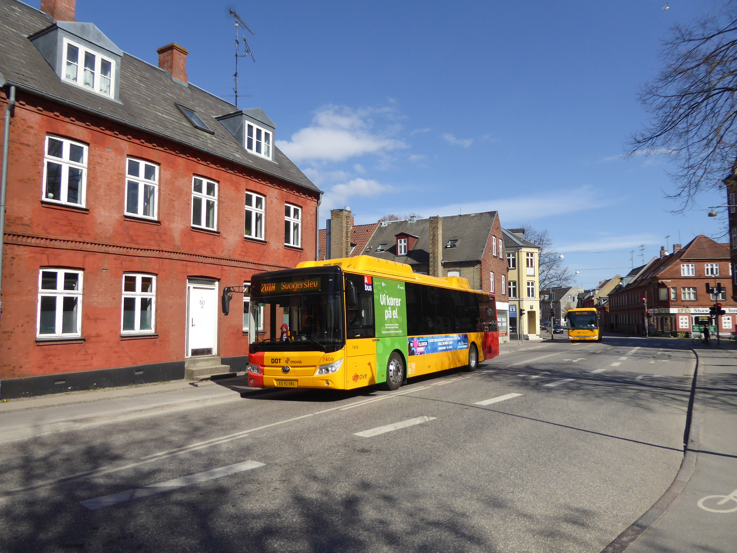 Movia bus line 201A on Jernbanegade in Roskilde in Denmark. The day before all the local bus lines of Roskilde got electric Yutong E12LF buses like this.